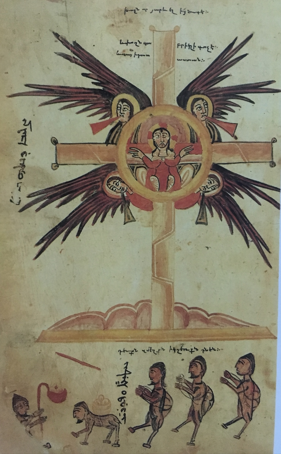 Painting from a Gospel Book of the Church of the East (the so-called “Nestorian Church”), with captions in Syriac (larger in size) and Armenian, 15th—16th century. Bibliothèque nationale de France, MS Syr. 344, Paris. — Image extracted from Marco Polo y la Ruta de la Seda by Jean-Pierre Drège, collection “Aguilar Universal” (vol. 31), the Spanish edition of “Découvertes Gallimard”.